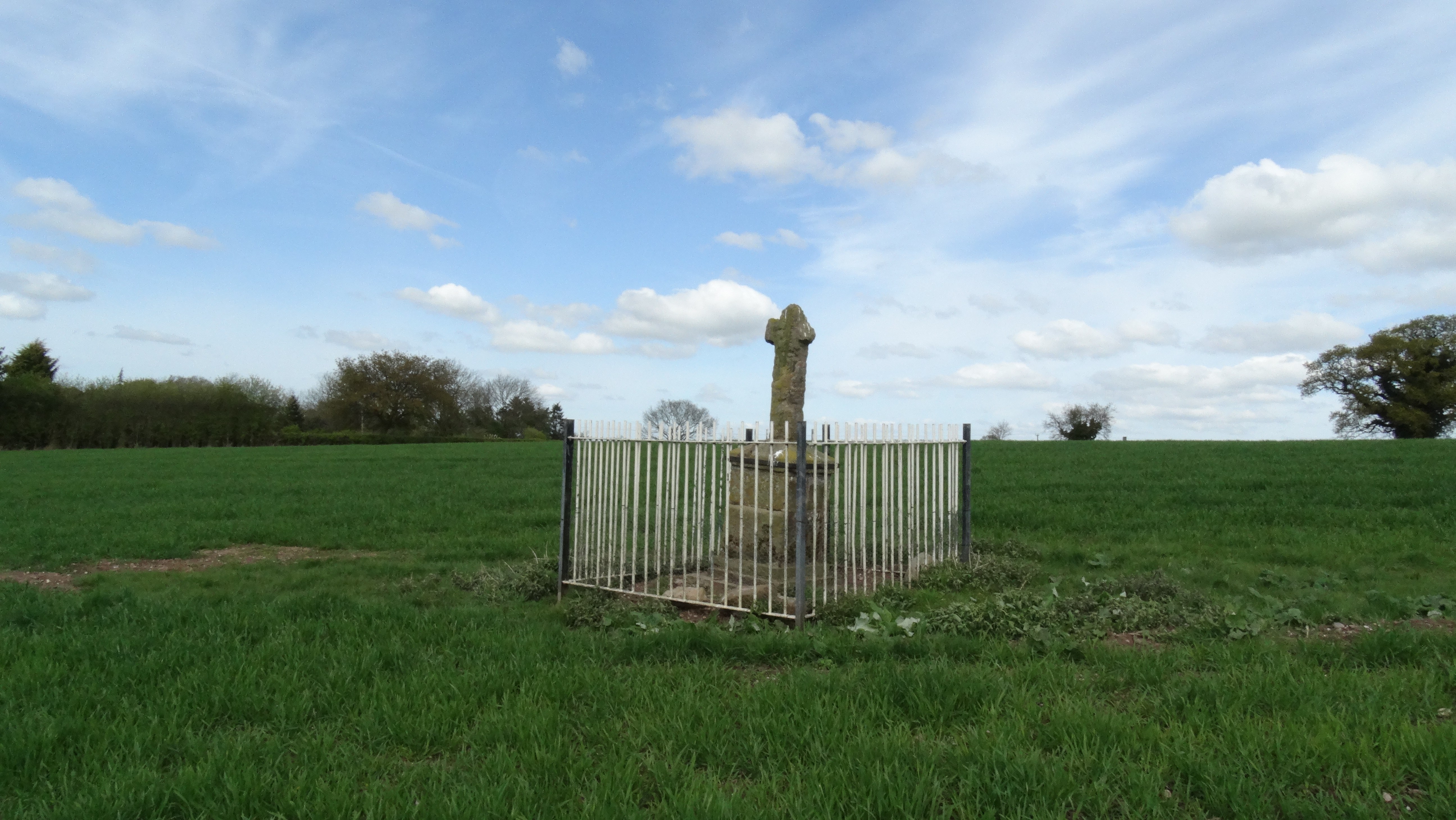 Audley's Cross, Blore Heath near Market Drayton